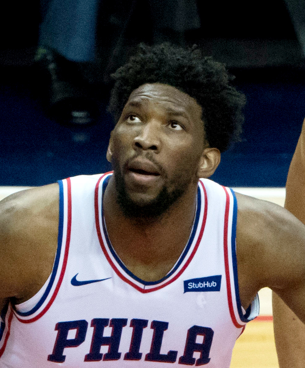 76ers at Wizards 2/25/18